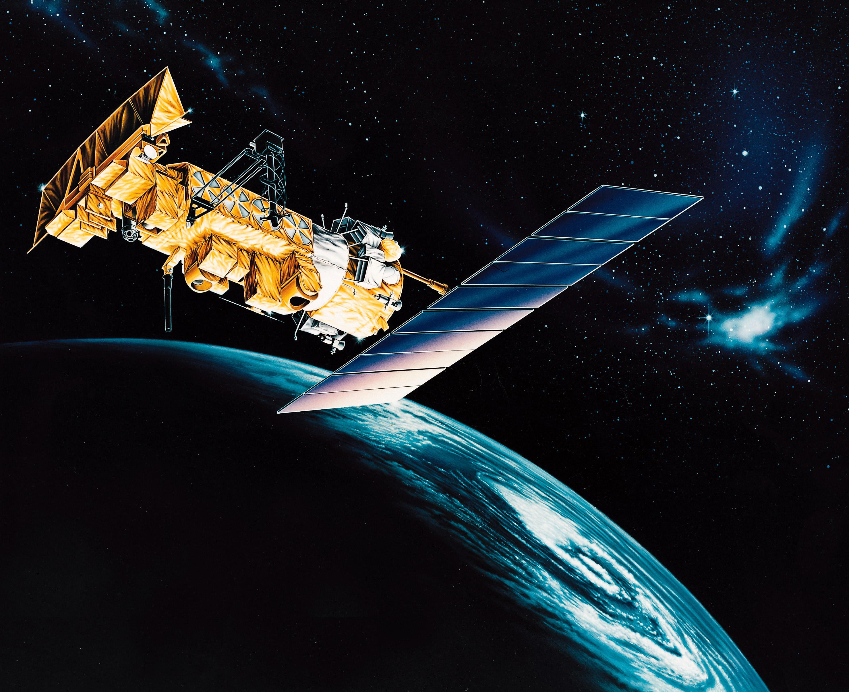 An artist's rendering of the NOAA-M spacecraft, a polar-orbiting Earth environmental observation satellite that will provide global data to NOAA's short- and long-range weather forecasting systems. Launch of the NOAA-M aboard a Titan II rocket occurred on for June 24, 2002, from Vandenberg Air Force Base.